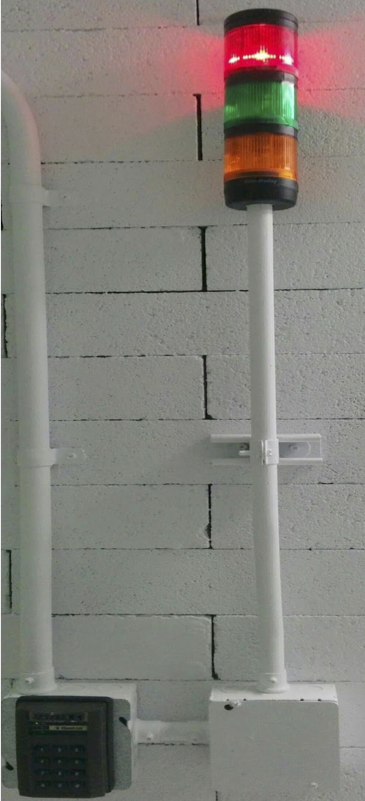 Safety interlock station to clear the area before generator operation. NSL has four such stations with each having a keypad and a light tree.